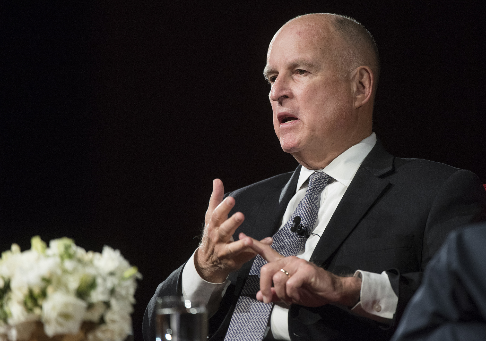 On Wednesday, Nov. 7, 2018, the LBJ Presidential Library along with the LBJ School of Public Affairs and the Annette Strauss Institute for Civic Life at the University of Texas at Austin hosted a conversation with California Gov. Jerry Brown (D). Mark K. Updegrove, president and CEO of the LBJ Foundation moderated the conversation.